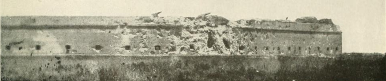 Photographed from angle where Union artillery fired upon Fort Pulaski.